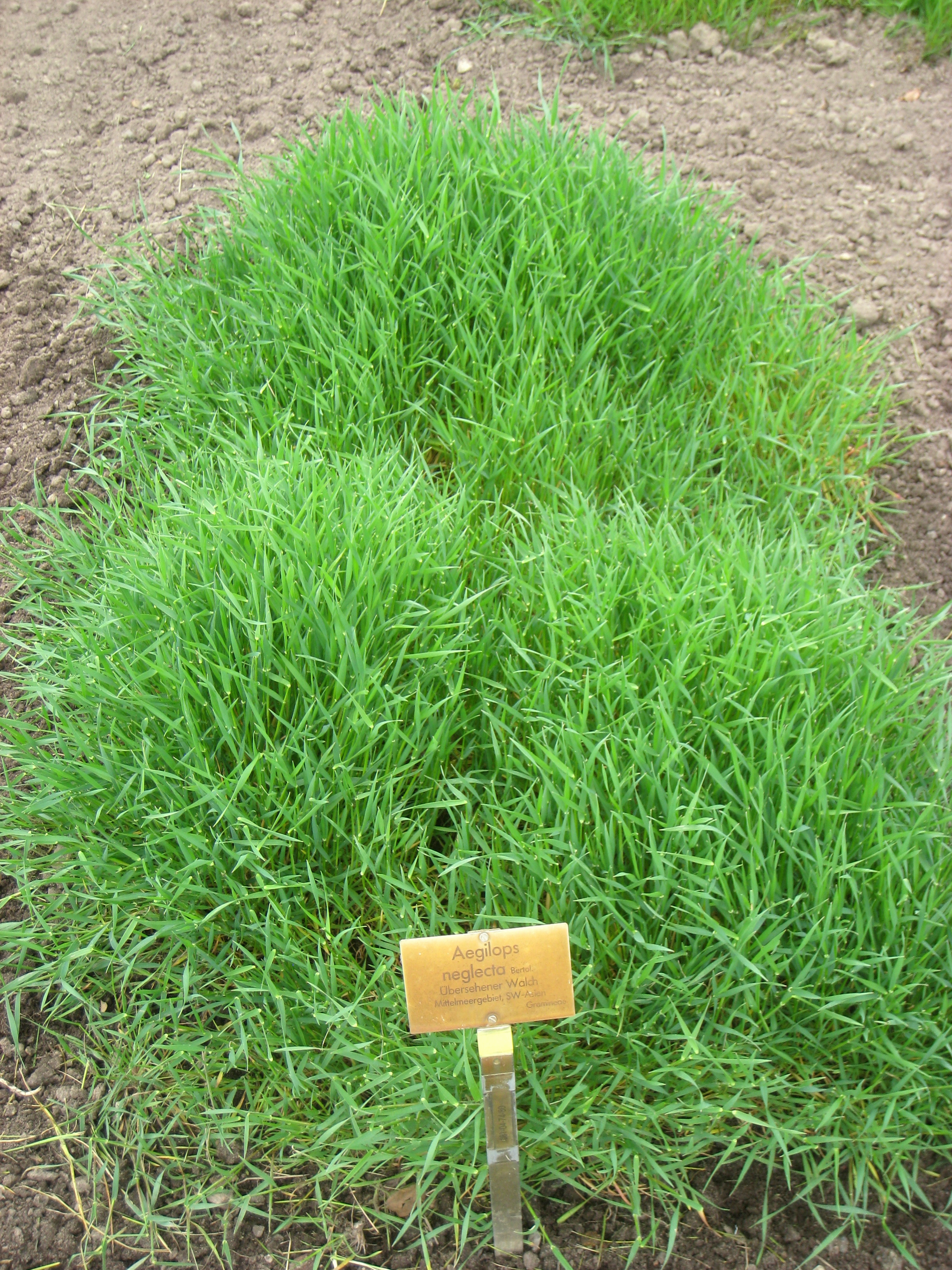 Aegilops neglecta specimen in the Botanischer Garten, Berlin-Dahlem (Berlin Botanical Garden), Berlin, Germany.